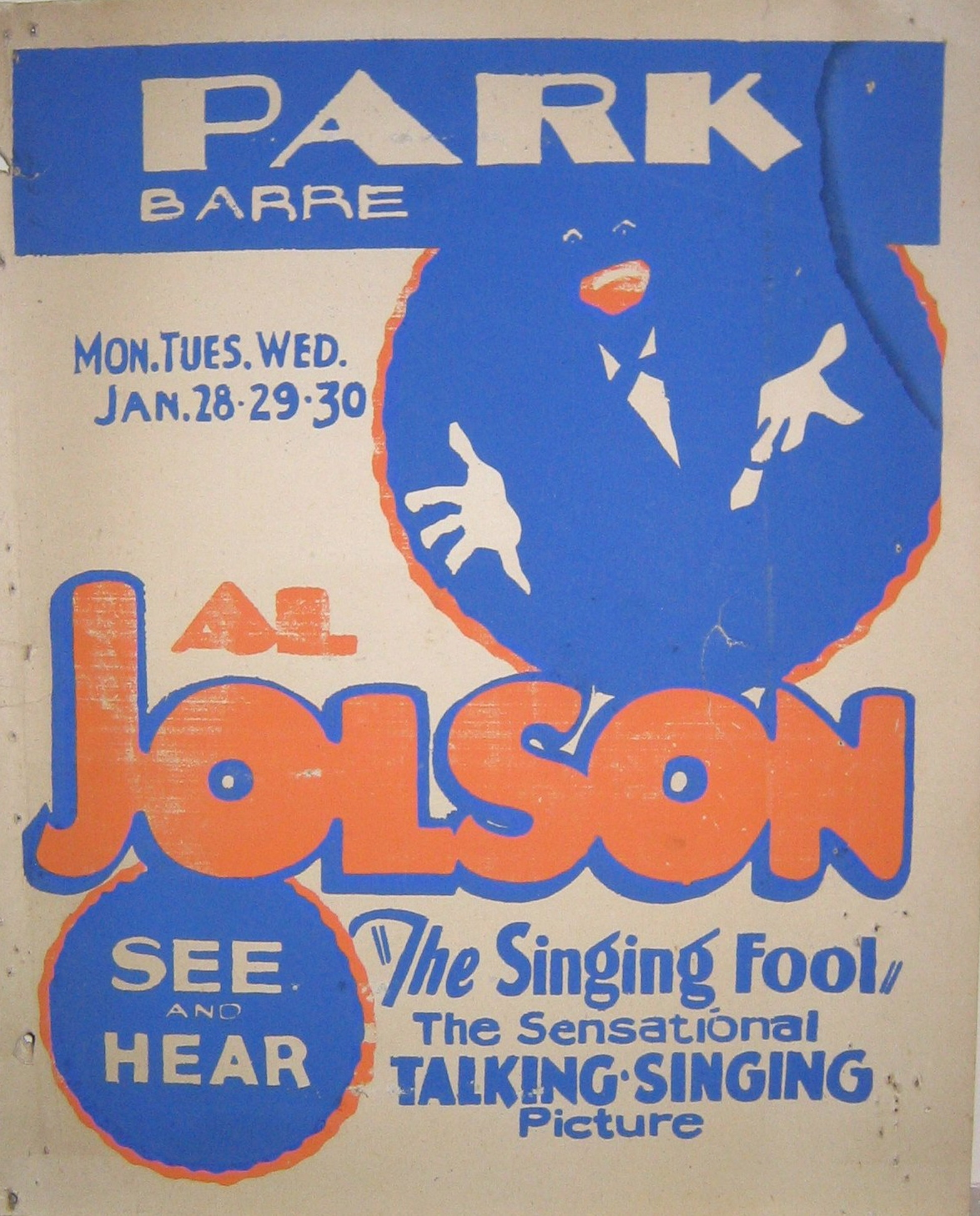 Poster for the American musical drama film The Singing Fool (1928) staring Al Jolson, with representation of Jolson in blackface.